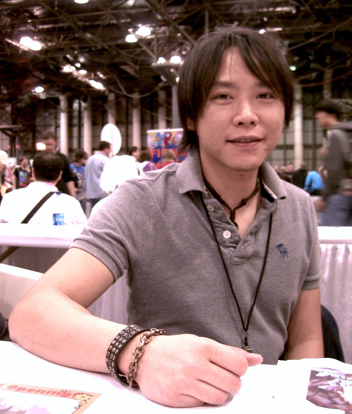 Comic book creator Kevin Lau at the New York Comic Convention in Manhattan, October 9, 2010. Photo by Luigi Novi. This photo may be used, modified and published for any purpose, only if a easily visible credit to the photographer is placed near the photo in each instance in which it is used. (See licensing information below.) Publication of this photo without this proper attribution constitute copyright infringement. For more information on my photos, you can contact me here.